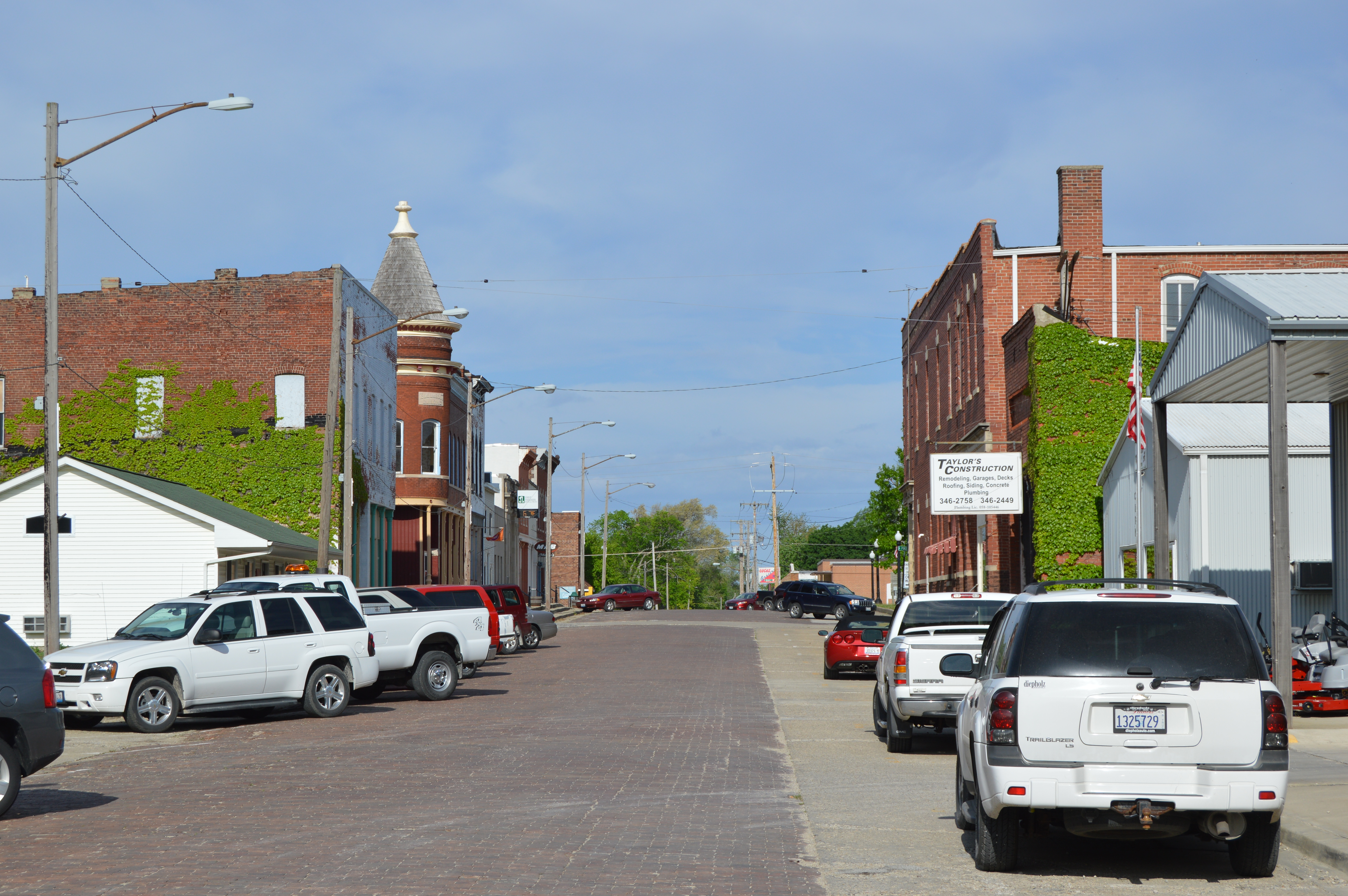 Looking westward on Main Street from near the Oak Street intersection in Oakland, Illinois, United States.